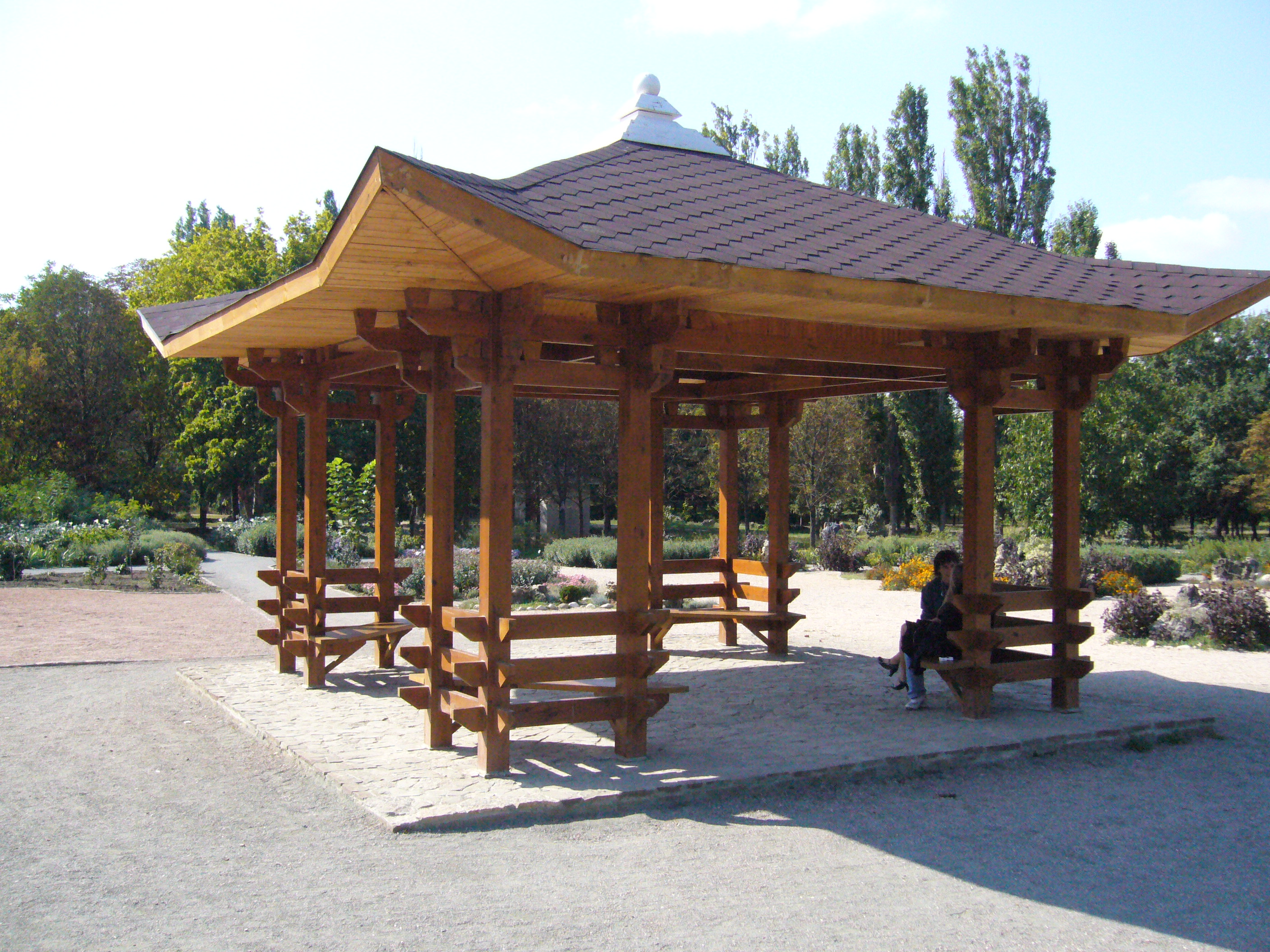 The botanical garden of the Taurida National Vernadsky University in Vorontsovsky park in Simferopol, the capital city of the Autonomous Republic of Crimea, Ukraine.